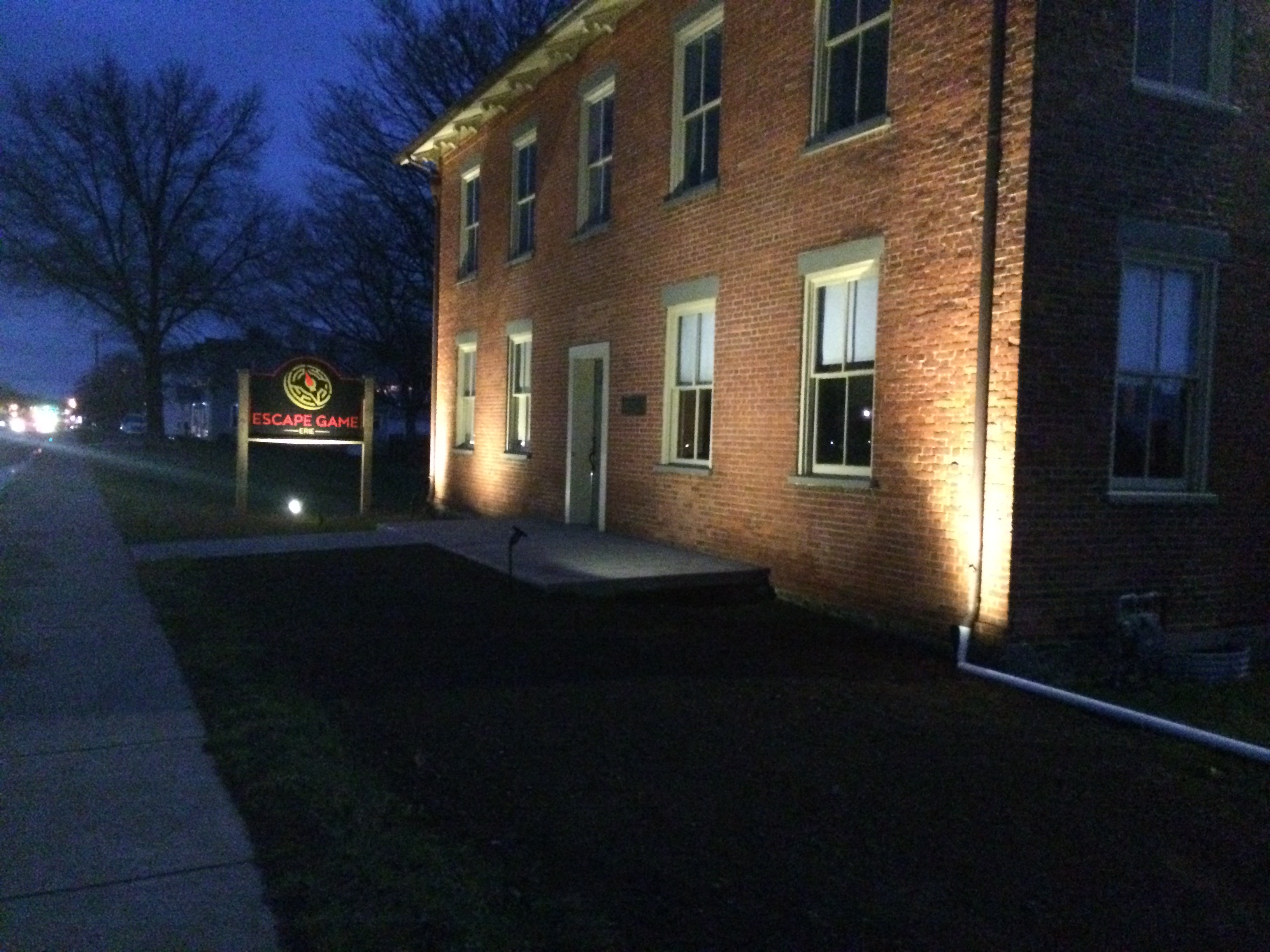 Nicholson House at night